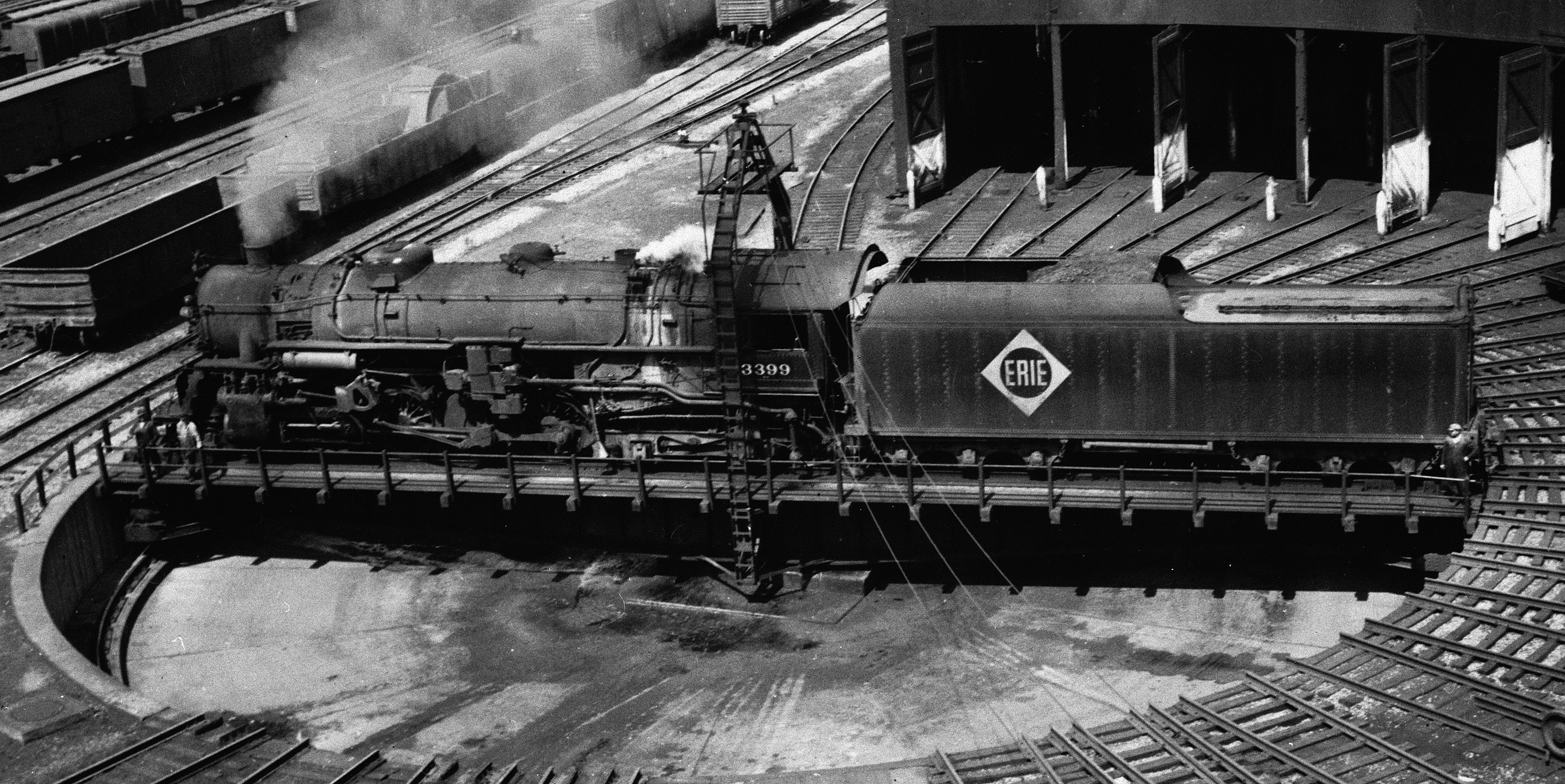 An Erie Railroad type 2-8-4 (Berkshire) locomotive on a turntable at Salamanca, New York.